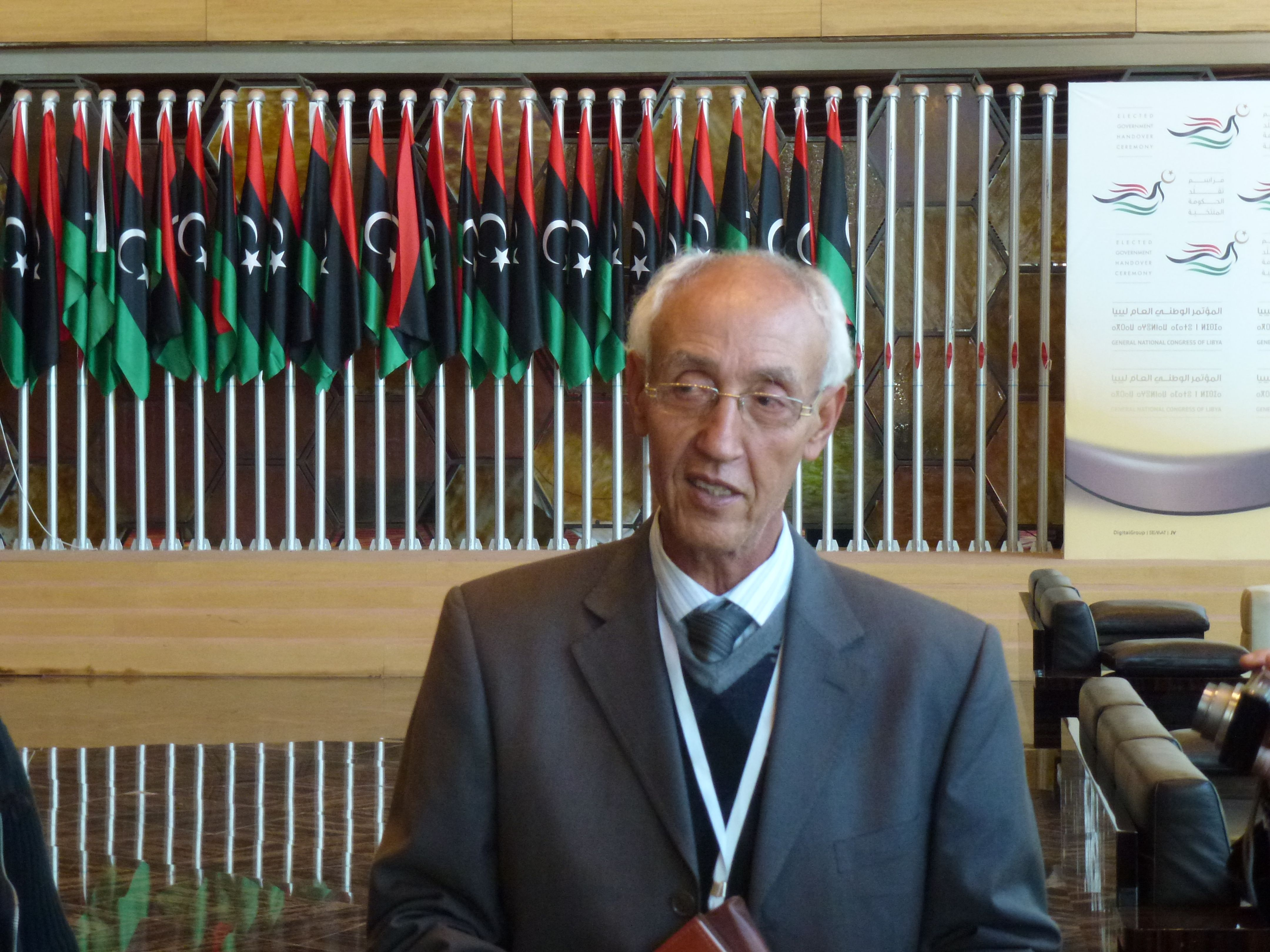 Ahmed Adghirni in Tripoli - january 12th, 2013